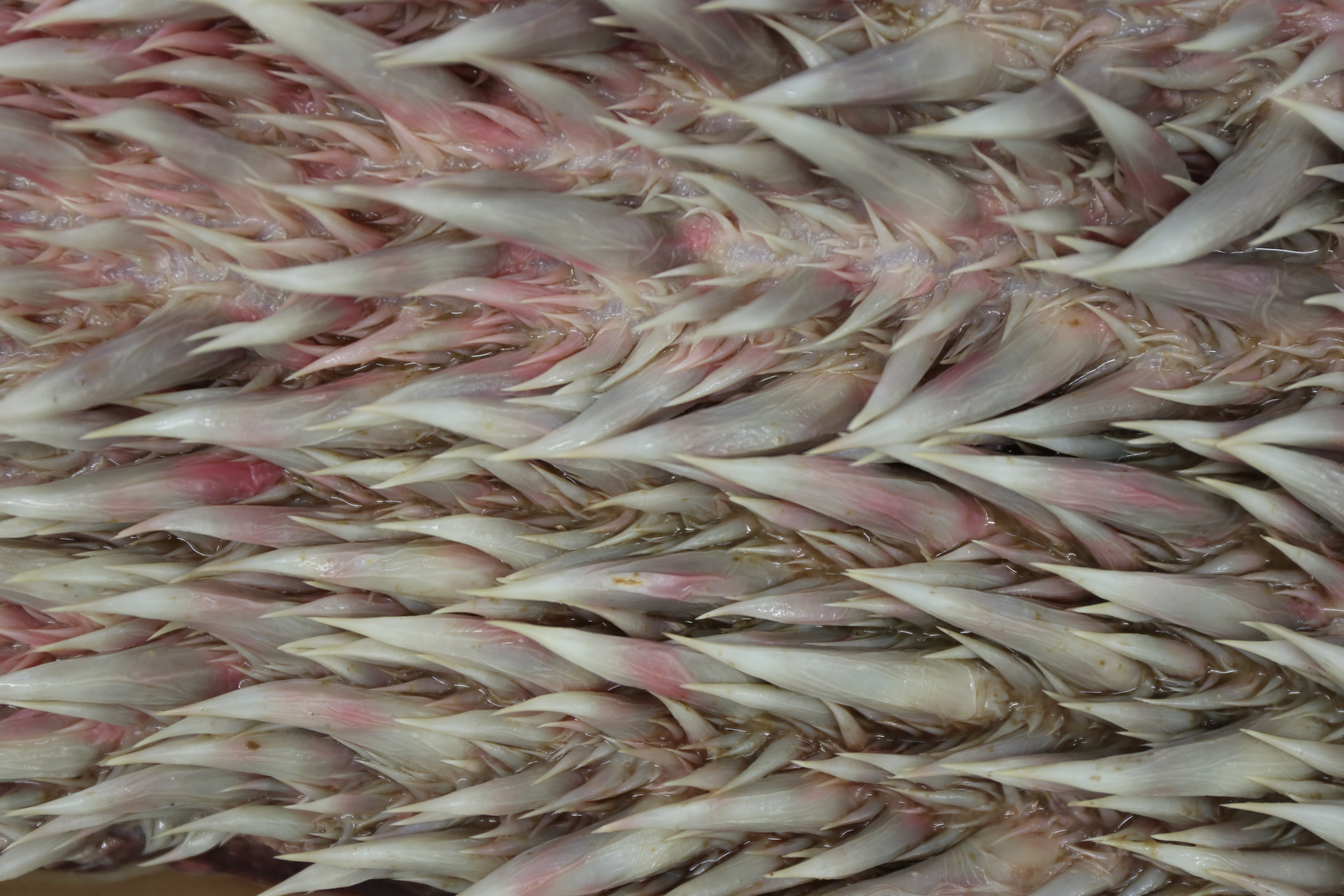 Oesophagus opened at necropsy